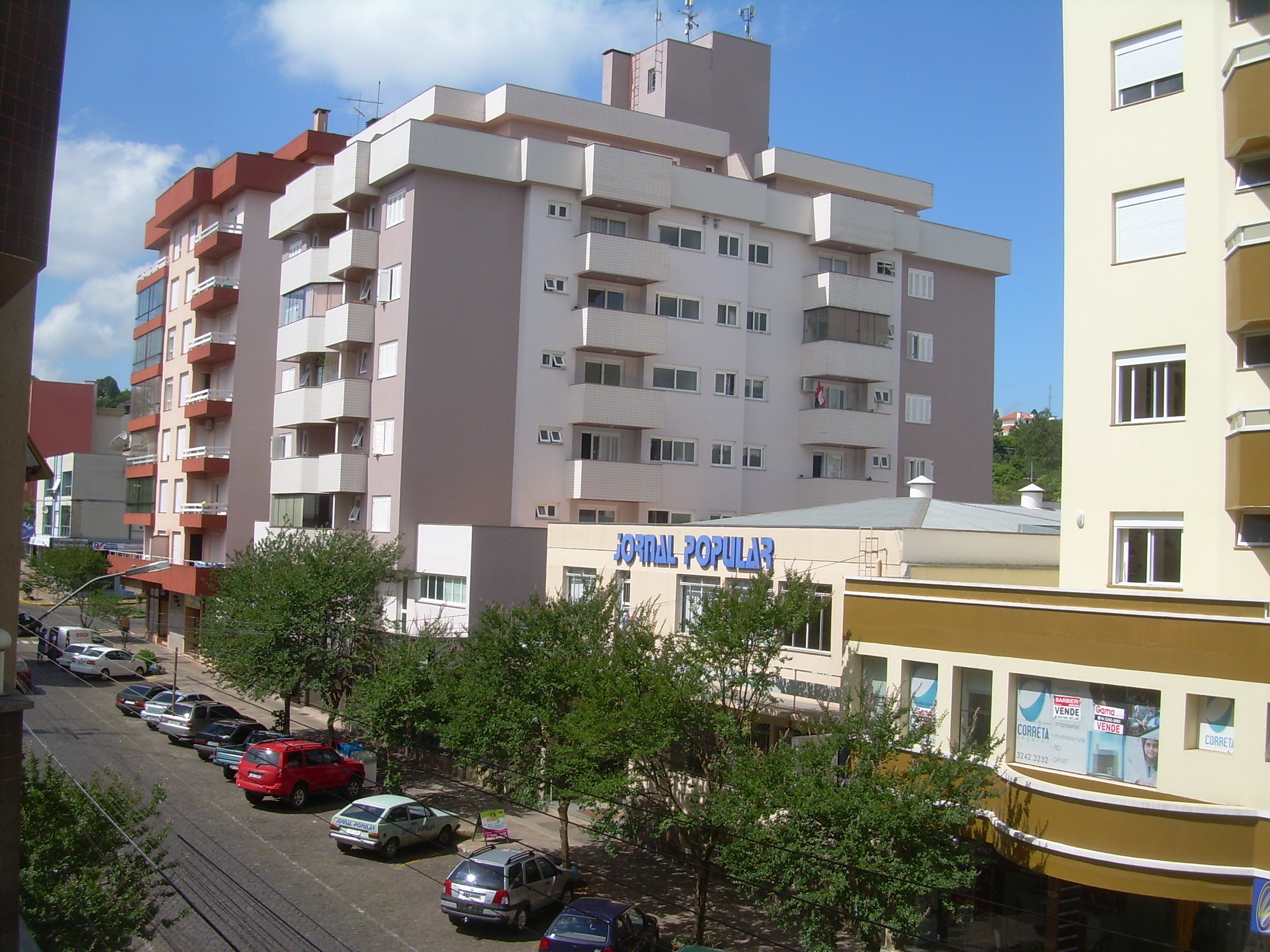 Edificios ubicados en el centro de Nova Prata